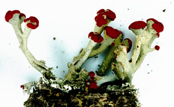 Cladonia cristatella Tuck. (photograph of a herbarium specimen) Growing on soil in Milbridge Cemetery, along Route 1A, in an area of eroding turf, gravestones and trees; Washington County, Maine, USA; collected and identified by E.C. Uebel (No. U-115, 12 Jun 2001). Note: Podetia lack soredia.